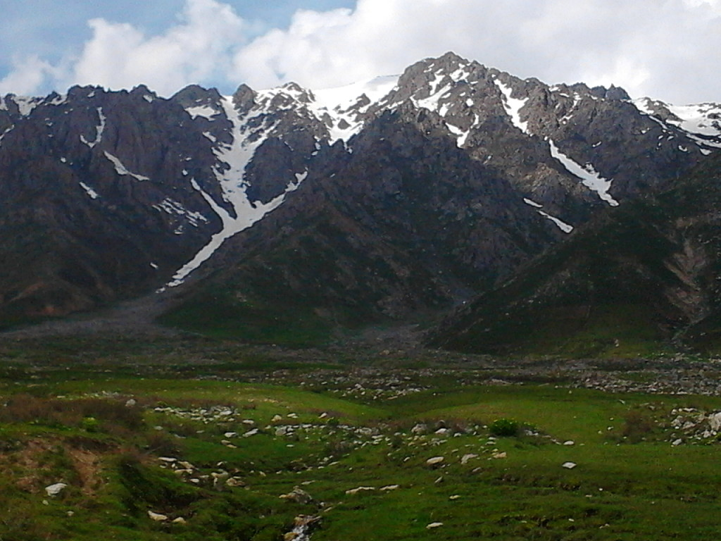 zarkamar